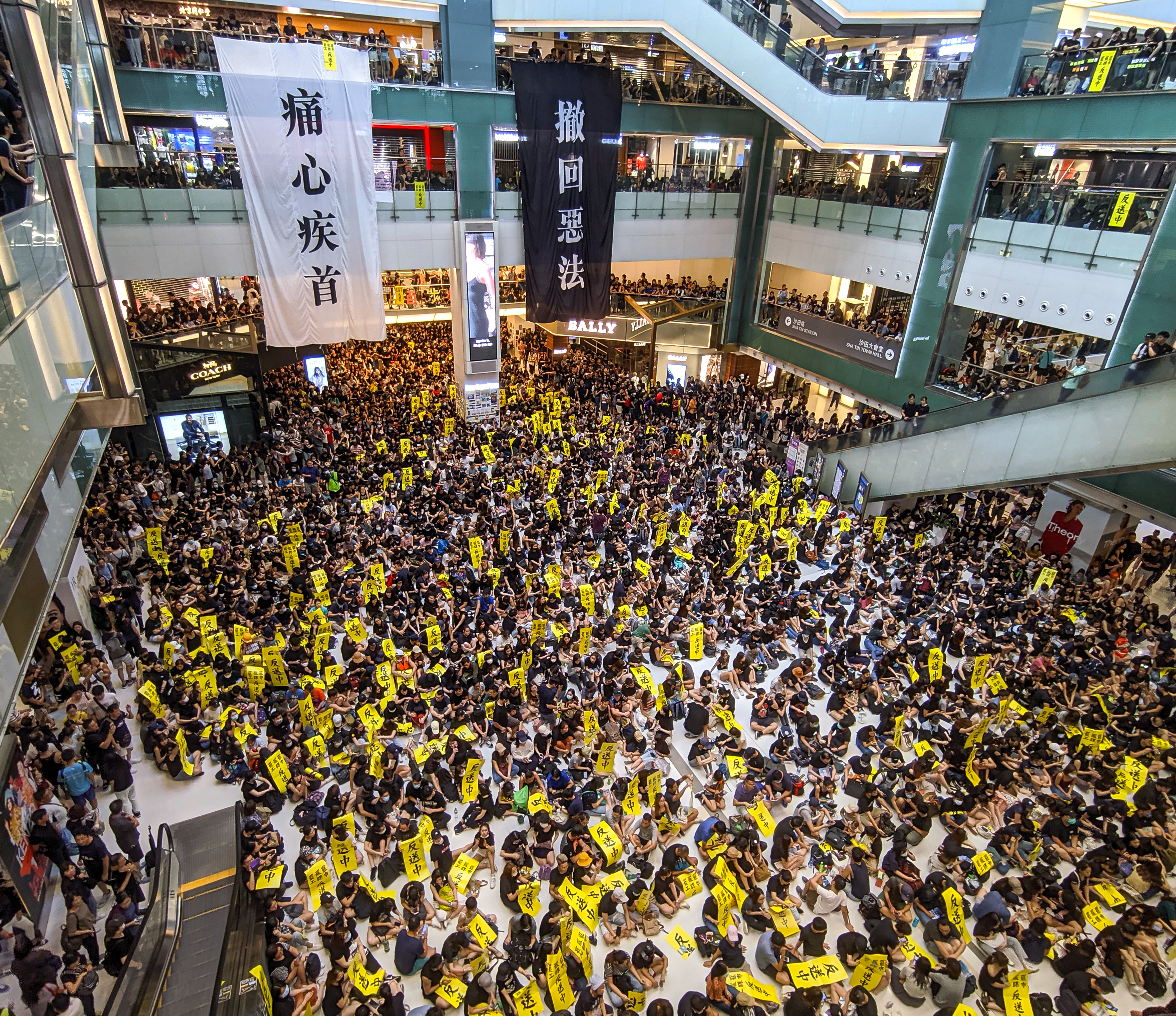 Protesters gathering at New Town Plaza, Sha Tin, Hong Kong on 5 August. A general strike was called as a protest of the extradition bill and the police excessive force.